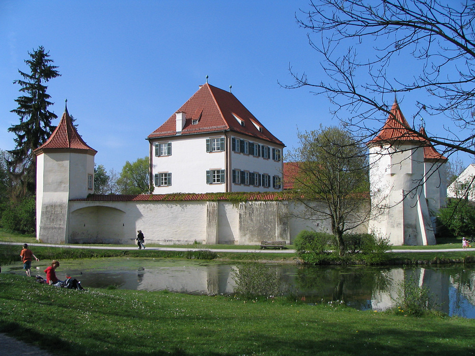 Castle Blutenburg, Munich, Germany